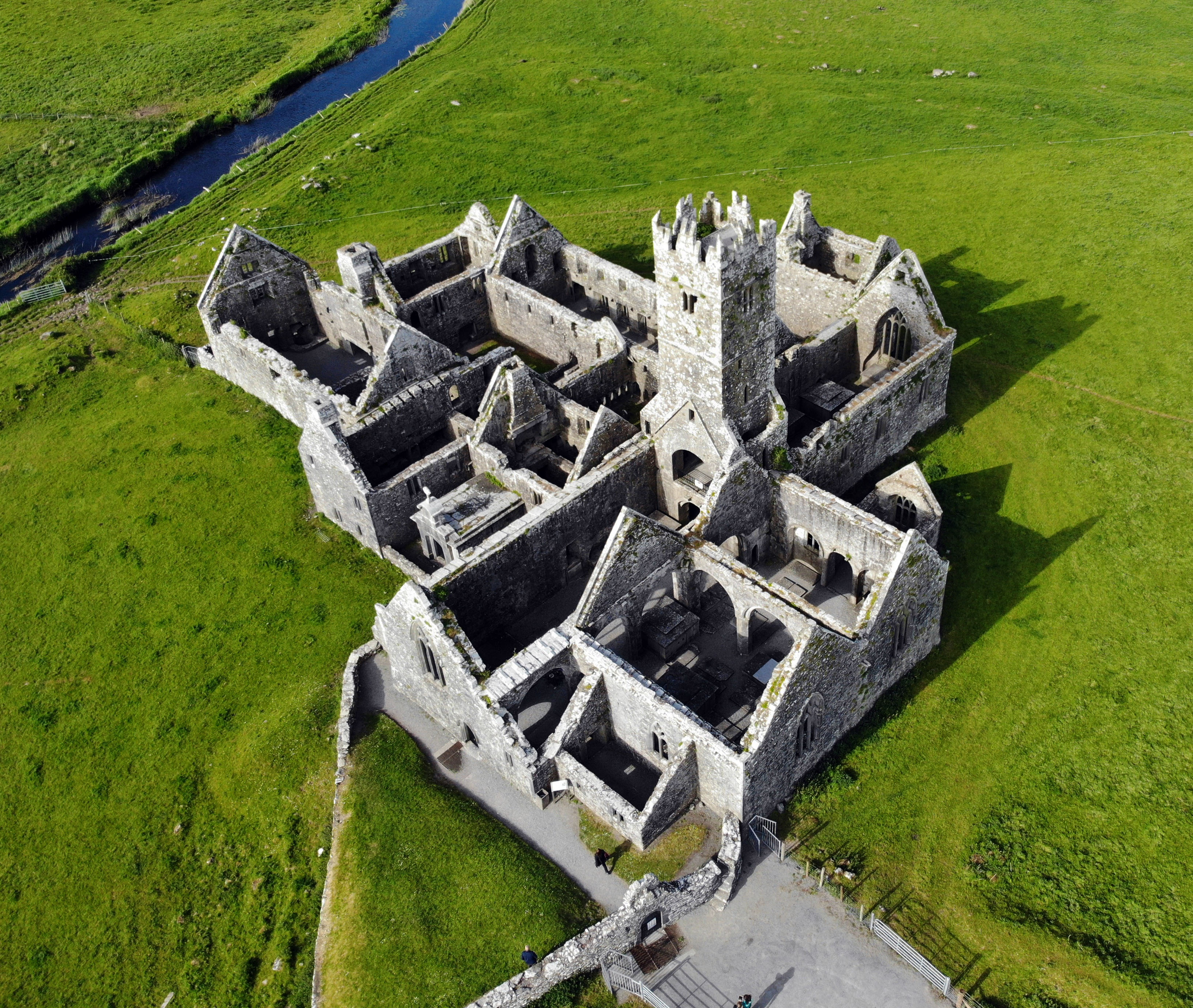 Aerial photograph of the Ross Errilly Friary, May 2019